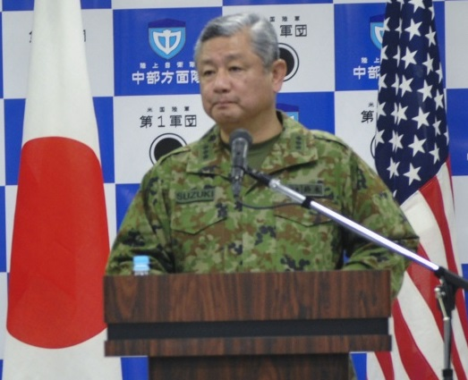 Lt. Gen. Junji Suzuki, commander of the Japan Ground Self-Defense Force Middle Army, answer questions from the media during the Yama Sakura 69 press conference at the Middle Army headquarters on Camp Itami, Japan, Dec. 5, 2015.